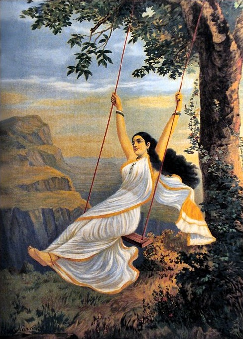 Mohini on a Swing. Notice the sari revealing her torso, suggesting her seductive nature.